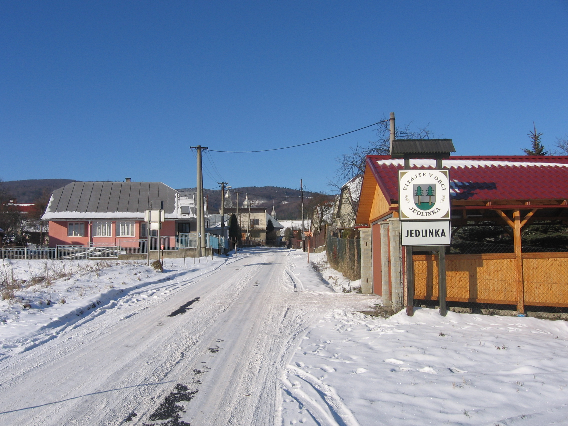 Jedlinka - 30.12.2008